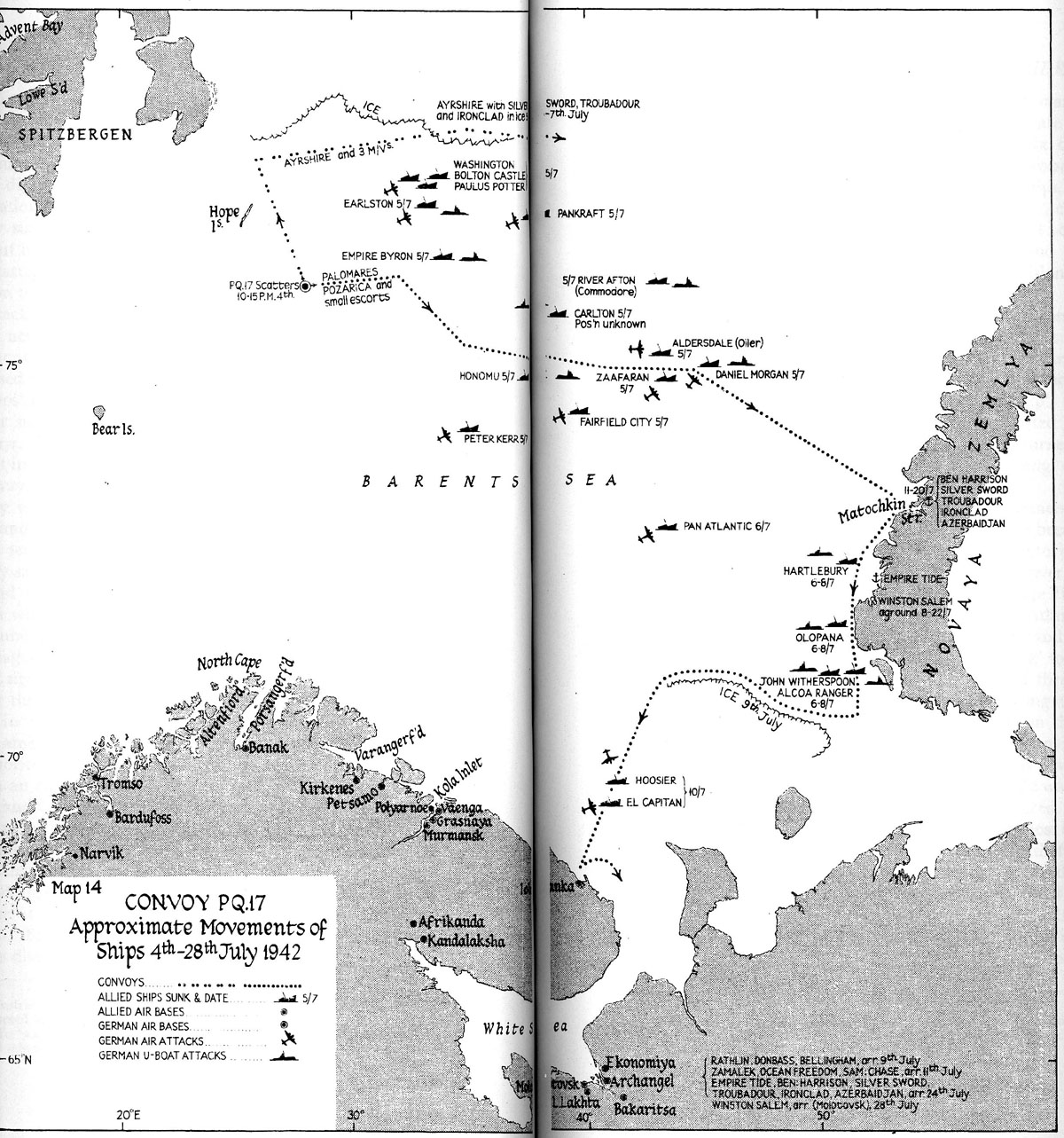 Convoy PQ 17, Approximate Movement of Ships, 4th - 28th July 1942.